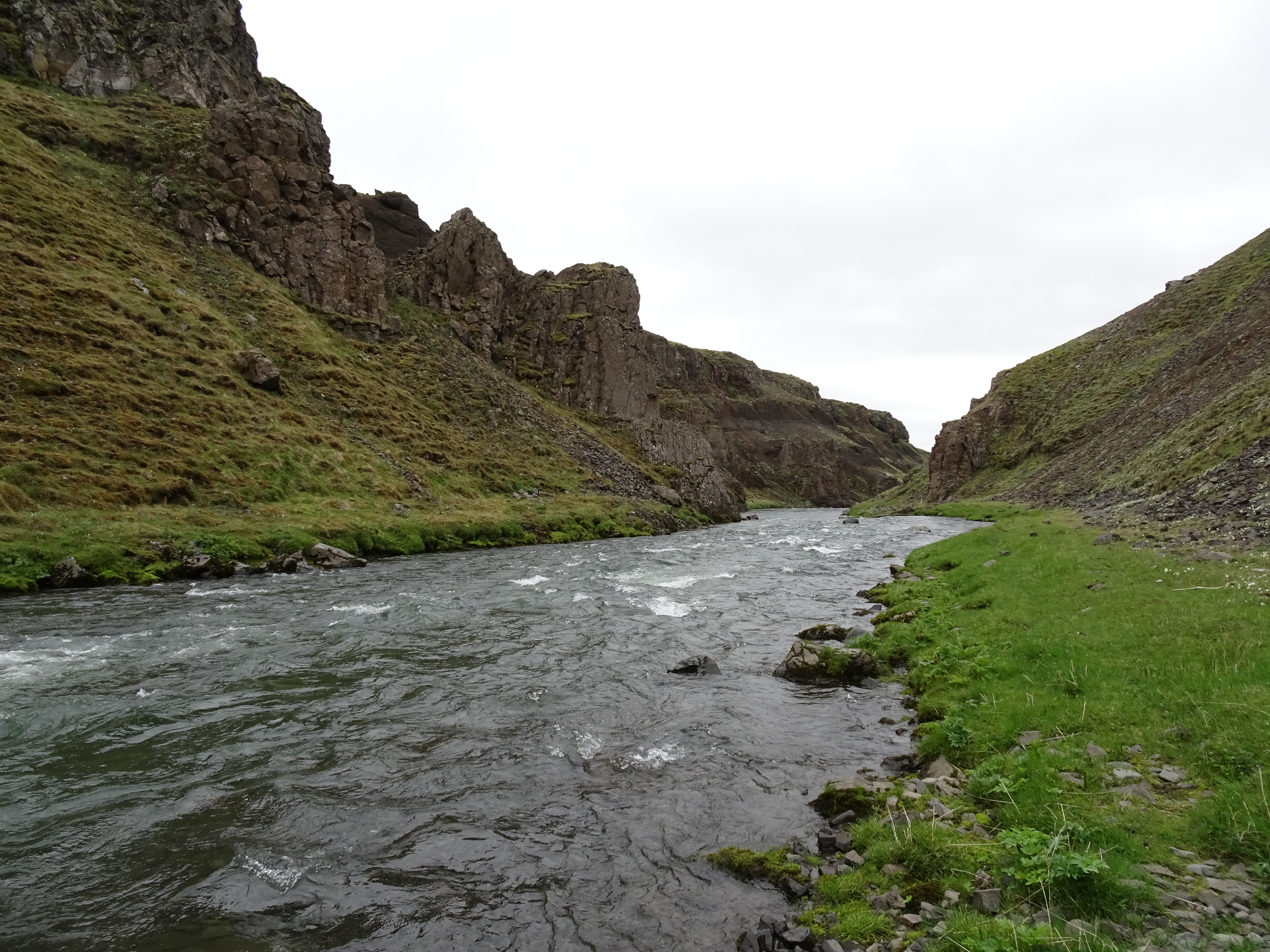 The Vatnsdalsá and its canyon, a river in Northern Iceland.